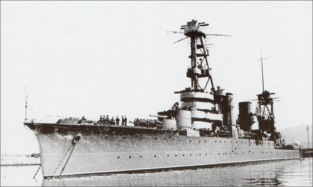 Soviet light cruiser Krasnyy Kavkaz.